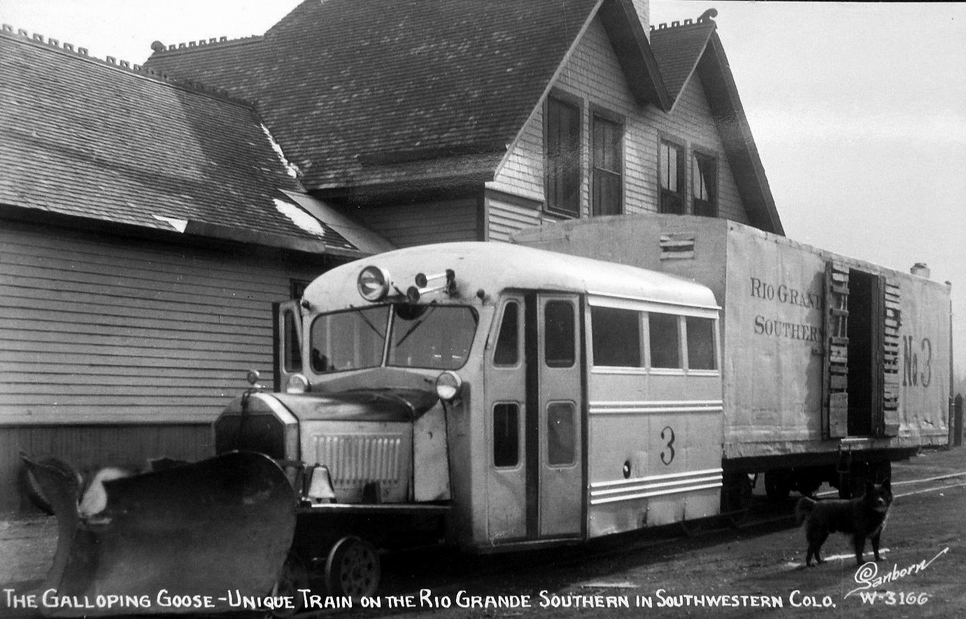 Postcard photo of the Rio Grande Southern's Galloping Goose #3 on the route in 1949. Probably in front of Ridgway depot.